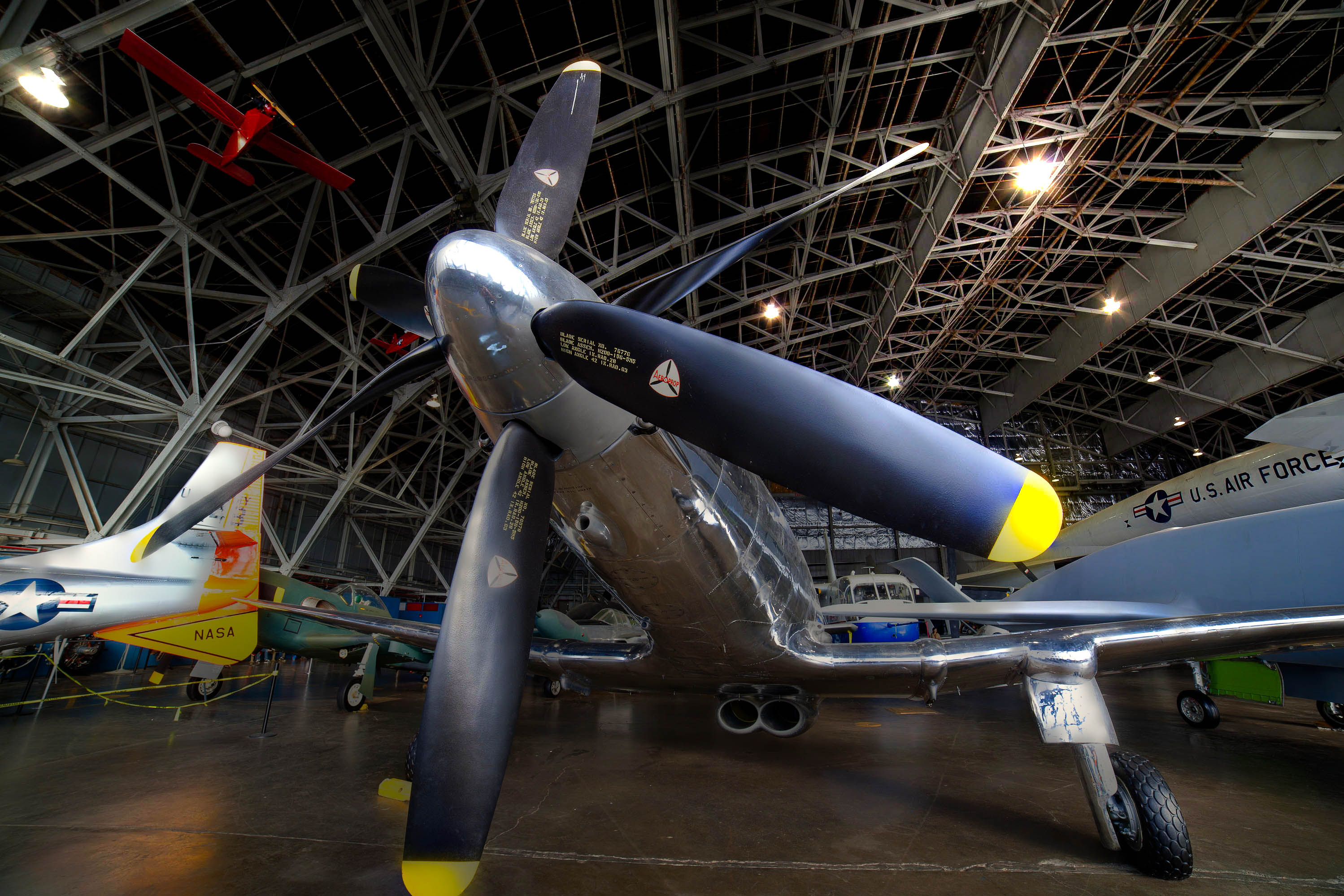 Fisher P-75 Eagle on display at the National Museum of the USAF in the Research & Development Gallery